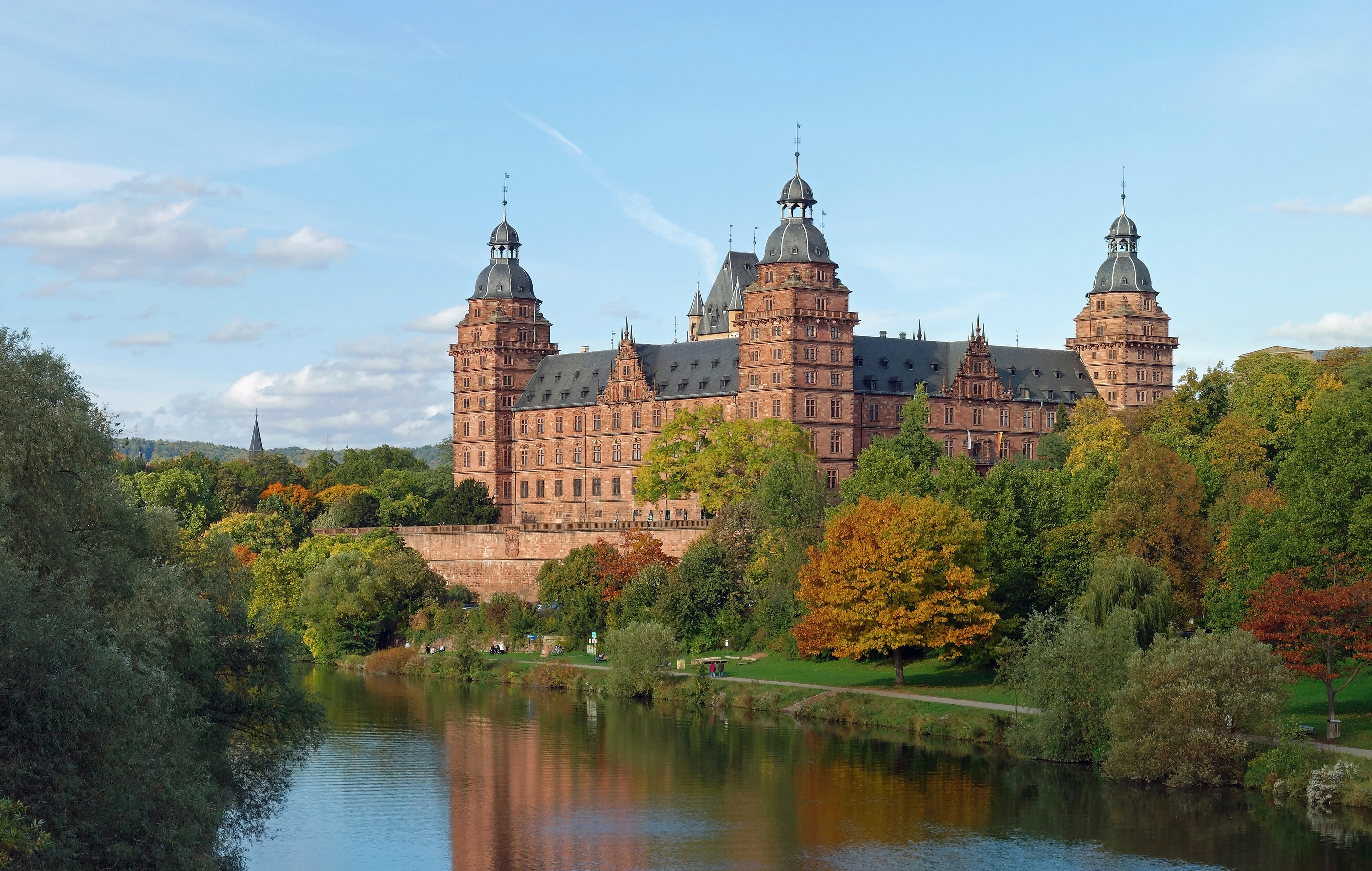 Johannisburg Castle in Aschaffenburg, view from south from the Main bridge Diese Datei wurde mit Hugin erstellt.